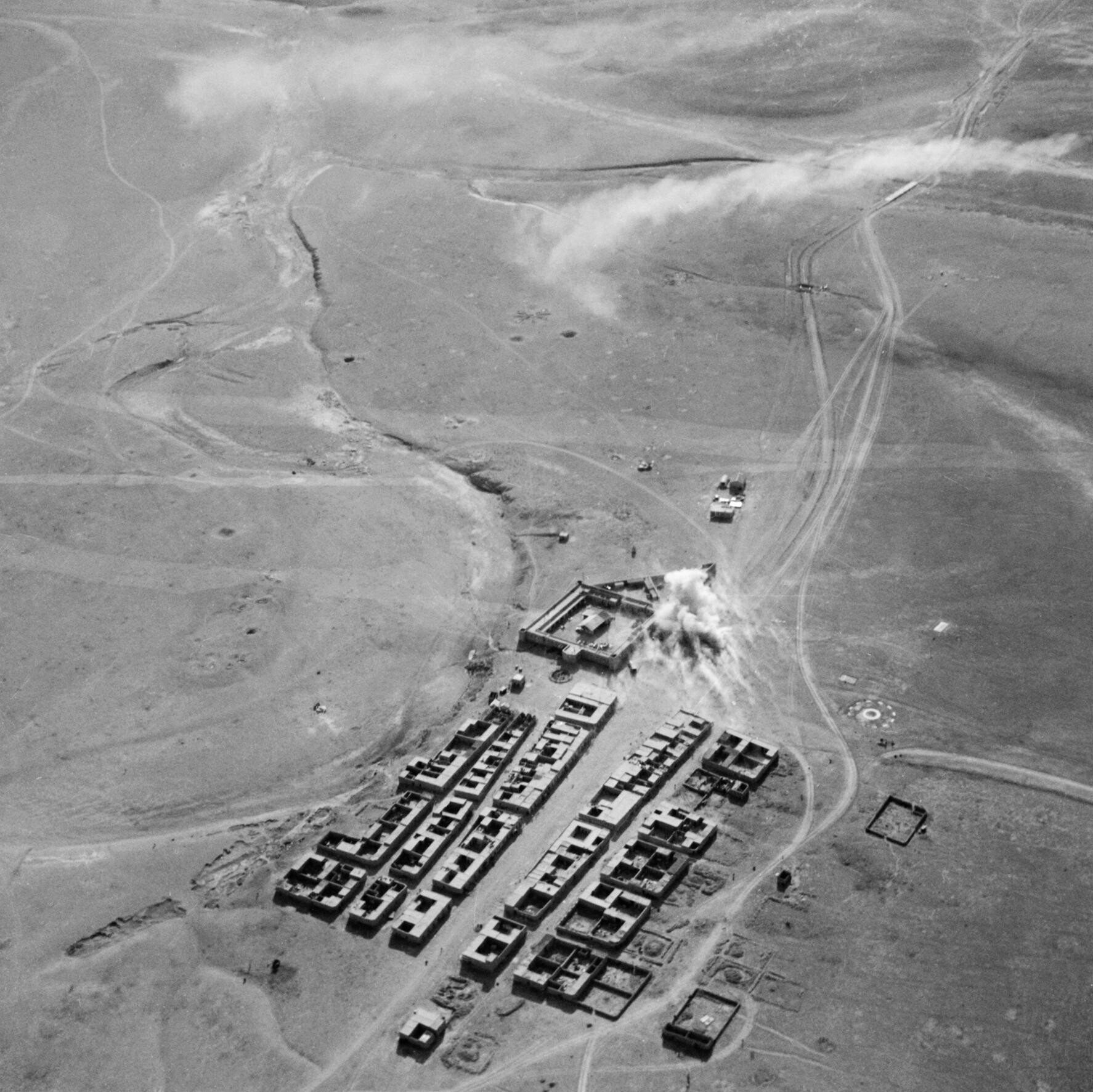 Royal Air Force Operations in the Middle East and North Africa, 1939-1943. The fort at Rutbah, Iraq, under attack from Bristol Blenheim Mark IVs of No. 84 Squadron RAF Detachment, based at H4 landing ground in Transjordan.